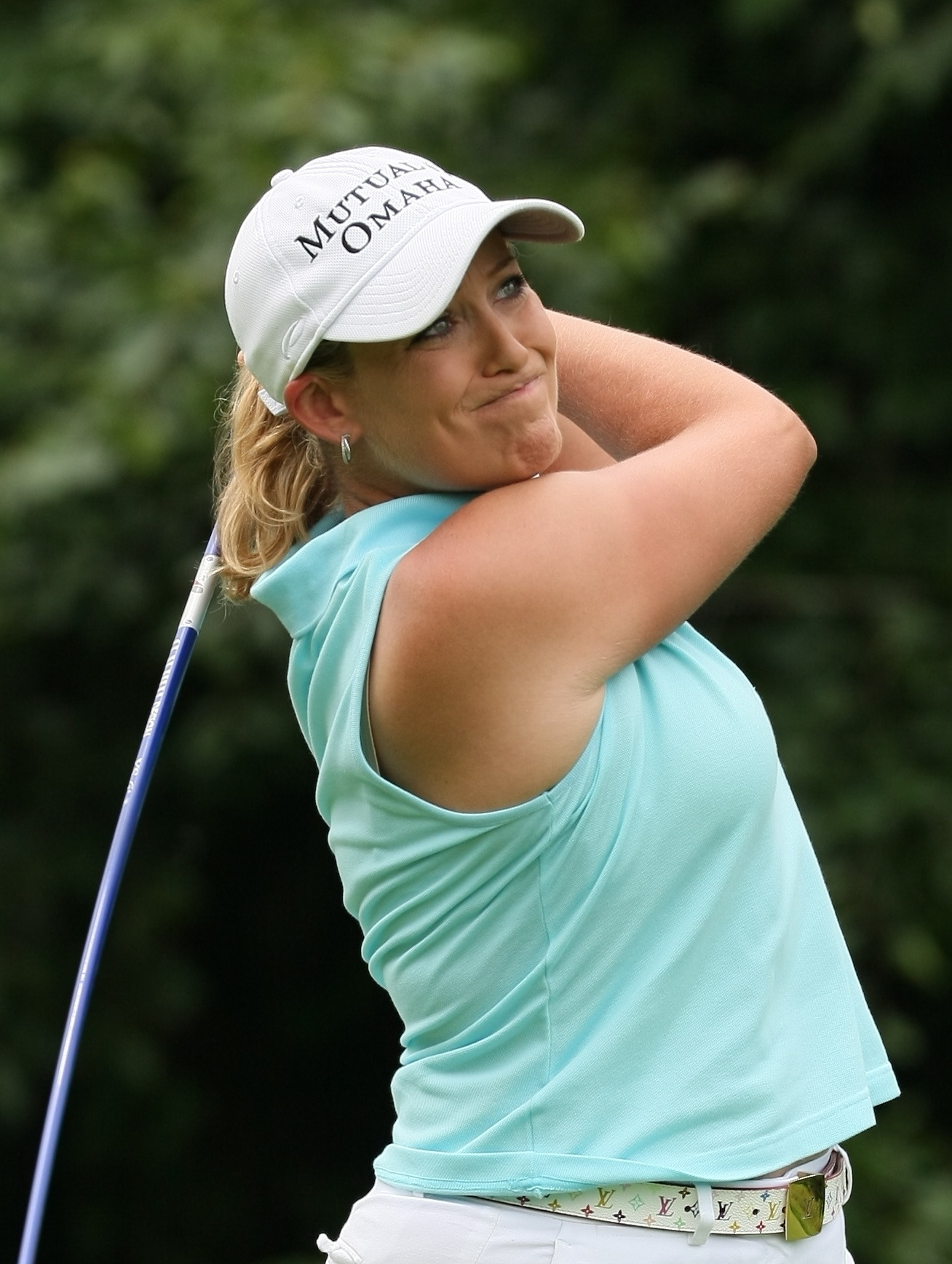 HAVRE DE GRACE, MD - JUNE 09: Cristie Kerr (USA) during Pro-Am before 2009 LPGA Championship held at Bulle Rock Golf Course, on June 9, 2009 in Havre de Grace, Maryland. (Photo by Keith Allison)